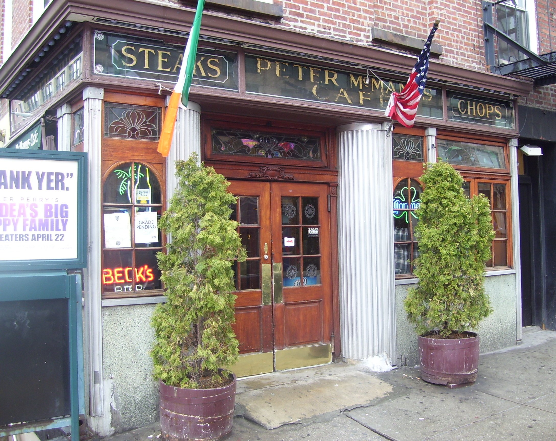 The Peter McManus Cafe at 152 Seventh Avenue at West 19th Street in the Chelsea neighborhood of Manhattan, New York City opened in 1936 in a building that dates from c.1901. (Source: NYC GIS map)